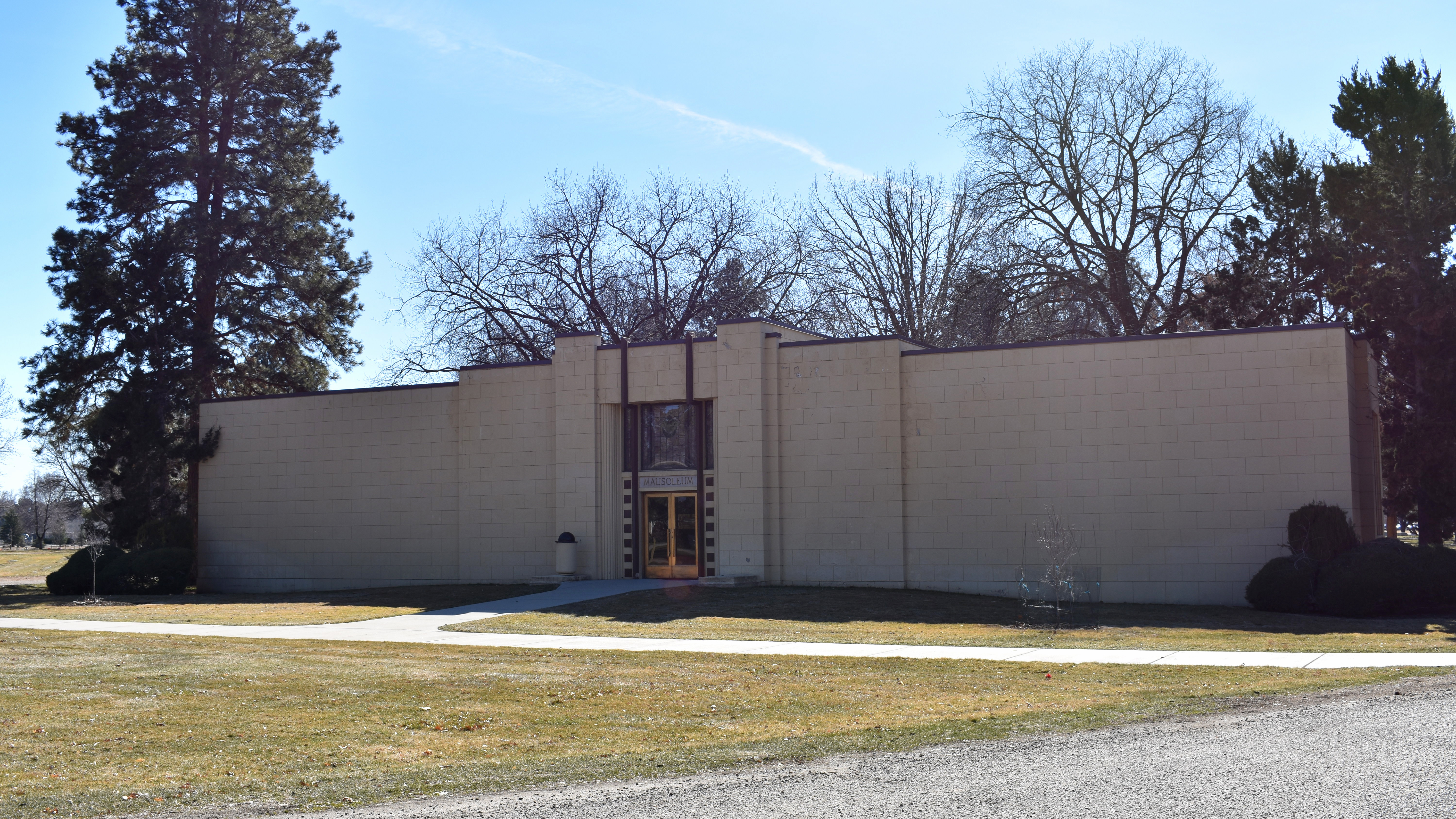 The Morris Hill Cemetery Mausoleum (1937) in Boise, Idaho, was designed by Tourtellotte & Hummel and is listed on the National Register of Historic Places.